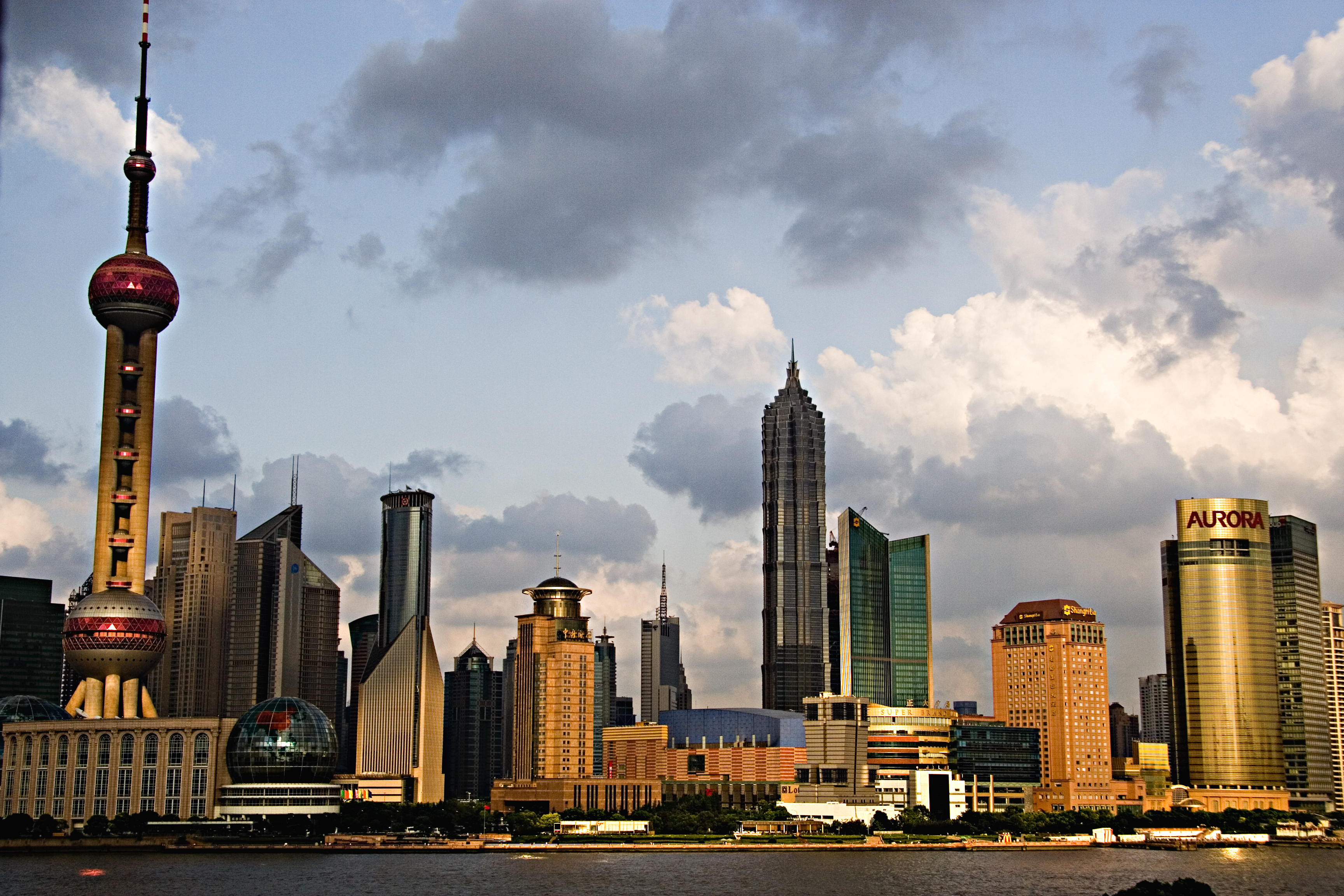 Vista de Shanghai desde el Hotel Peace, Shanghai view from Peace Hotel